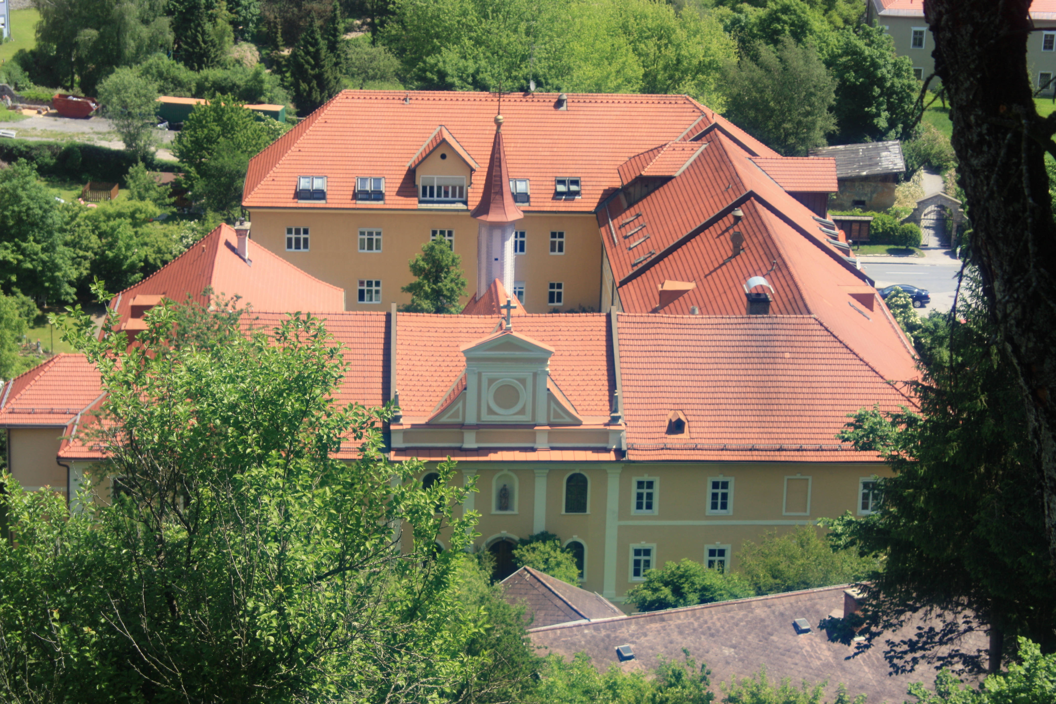 Hemmahaus in Friesach, Carinthia